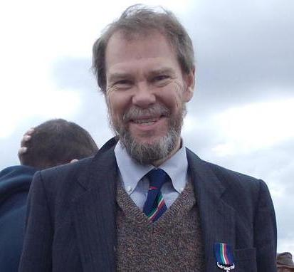 Intro photo image for Wiki column.